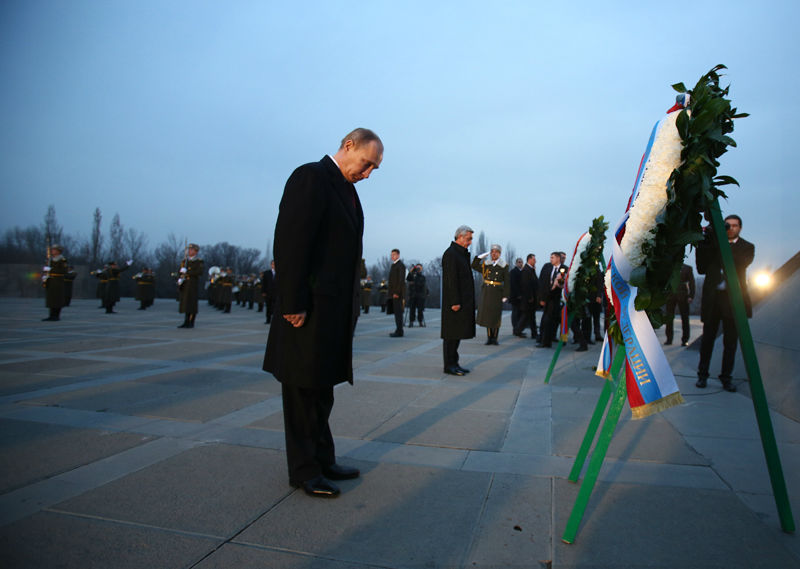 Vladimir Putin, Tsitsernakaberd memorial complex RA